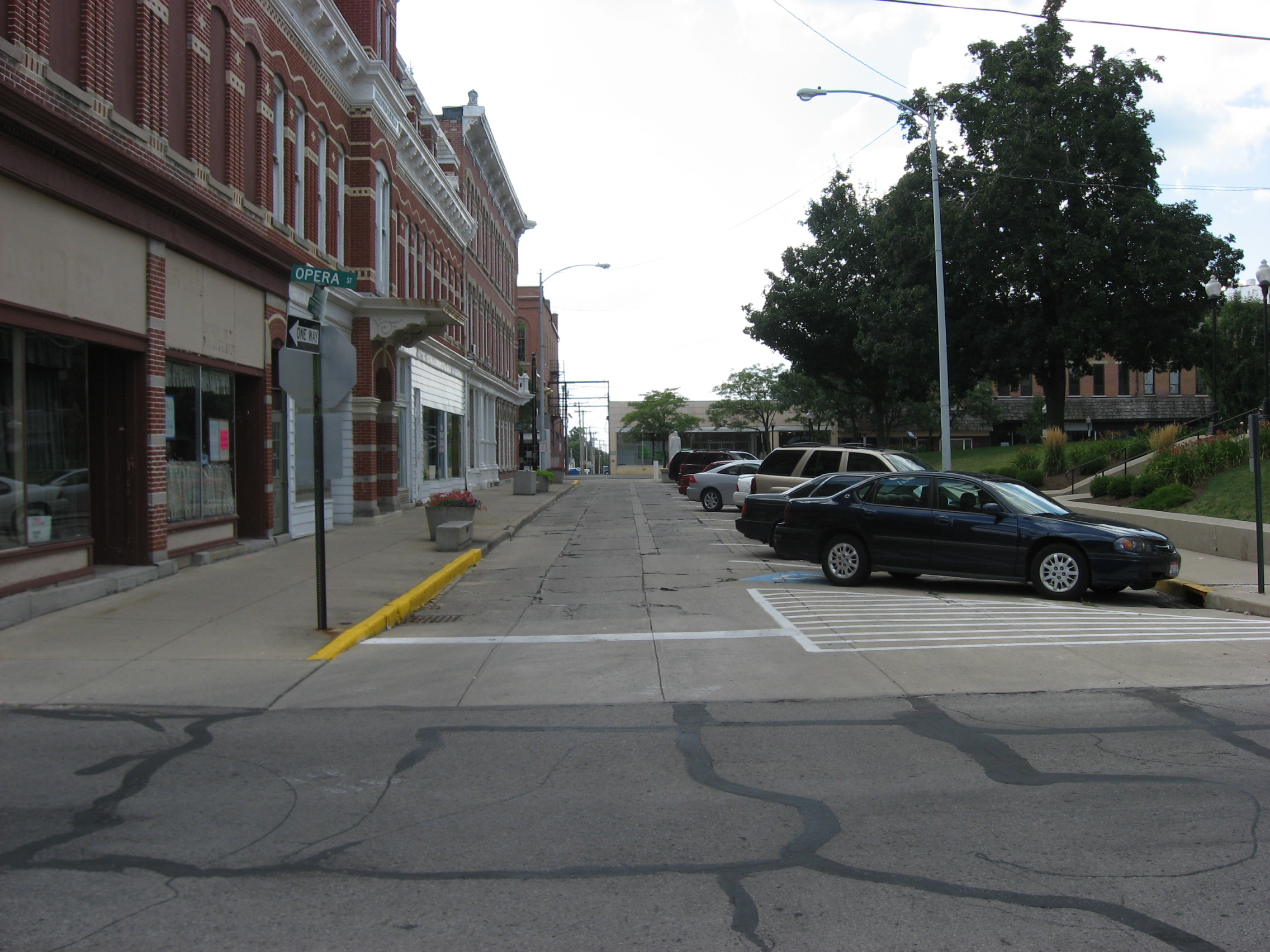 Looking westward on Court Avenue in Bellefontaine, Ohio, United States. The street, which is listed on the National Register of Historic Places, is recognized for being the first concrete-paved street in the country.